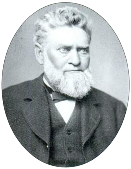 Photograph of Jacob Schram (d.1905), founder of Schramsberg Vineyards from c. 1890